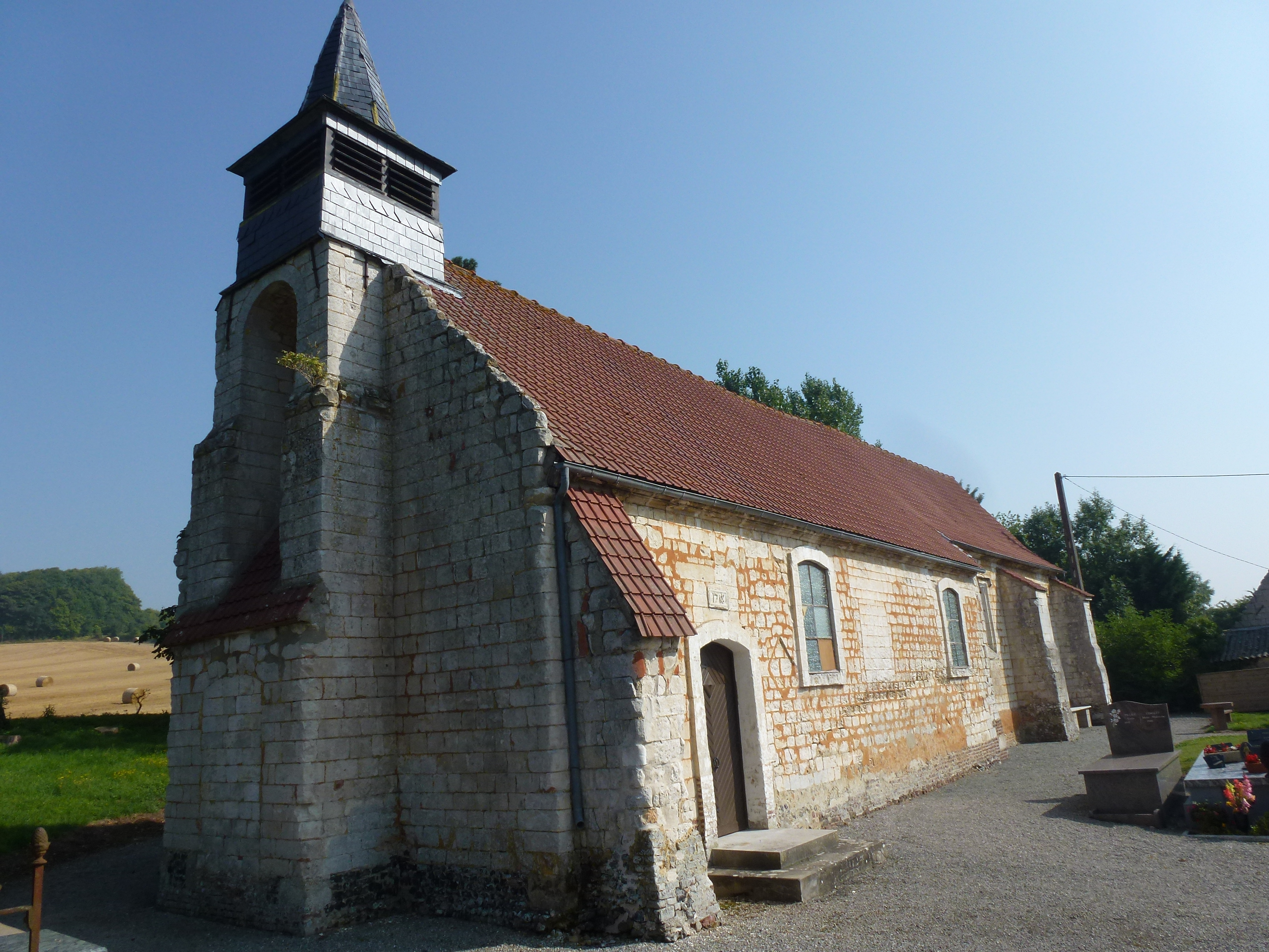 Tournehem-sur-la-Hem (Pas-de-Calais) église de Guémy